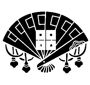 Japanese Crest, Kamon, Japanese cypress Fan and four Meyui